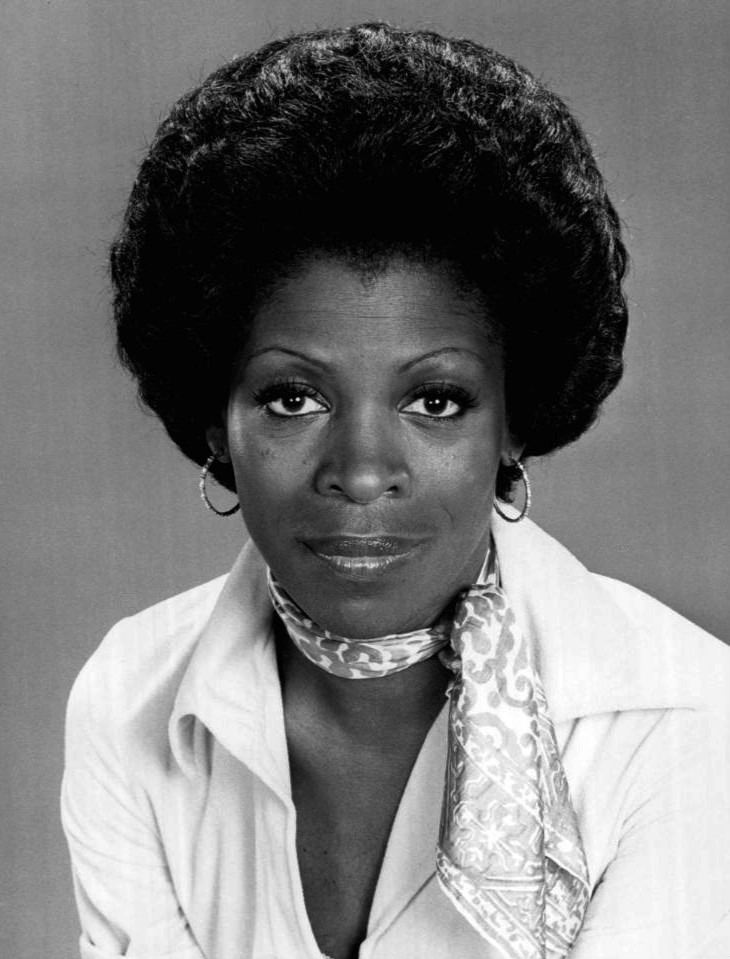 Publicity photo of actress Roxie Roker, best known for her role as Helen Willis in the television program The Jeffersons.